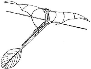 Alphonse Pénaud's 1871 model ornithopter "Oiseau artificiel"("Artificial bird").